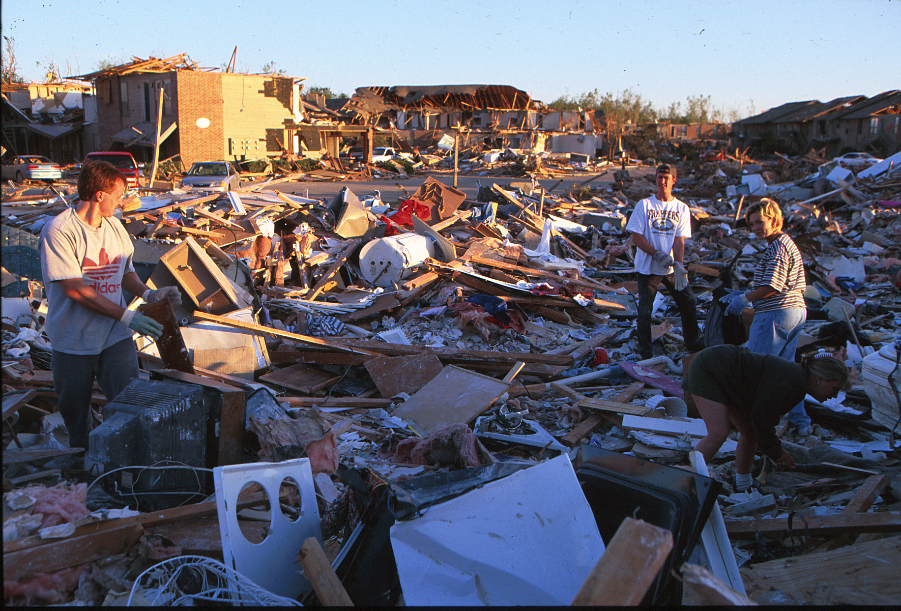 Oklahoma City, Ok, May 1999 -- Residents search through the rubble for belongings after tornados levelled their homes. Photo by Andrea Booher/FEMA News Photo